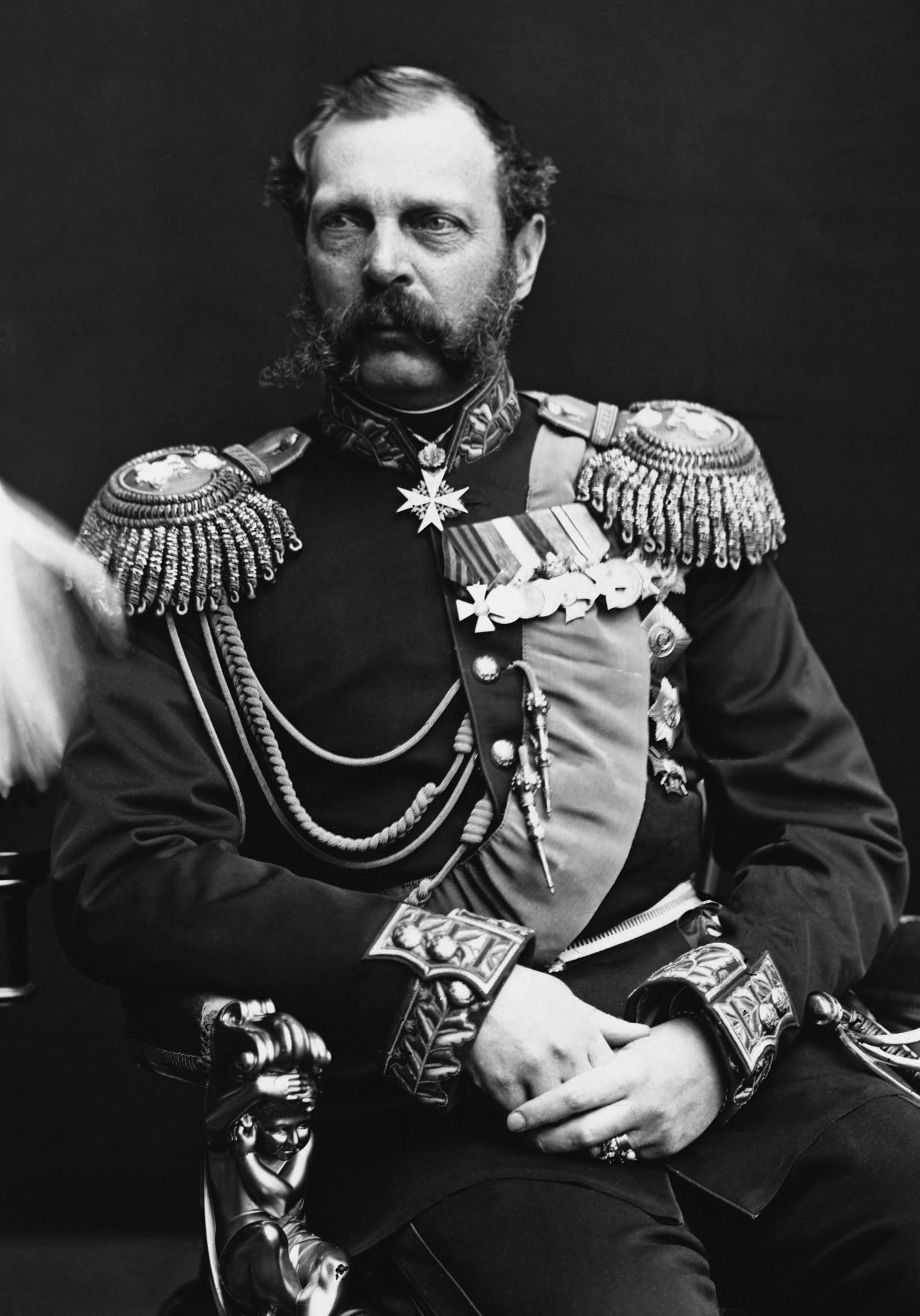 Portrait of Czar Alexander II, National Archives of Canada, No. C-010136 (cropped version)